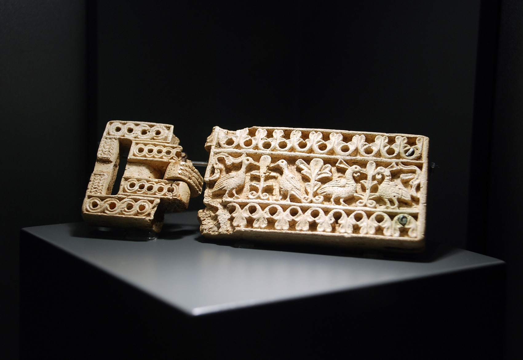 Museum of Prehistory and Archaeology of Cantabria. Finally carved Buckle from Santa María de Hito (Valderredible, Cantabria). The decoration of the plate is based on the representation of peacocks, partridges and plant and geometric patterns. It has been dated in the tenth century through the influence of Islamic art in the Caliphal period, but it could be older, from the Visigoth period.